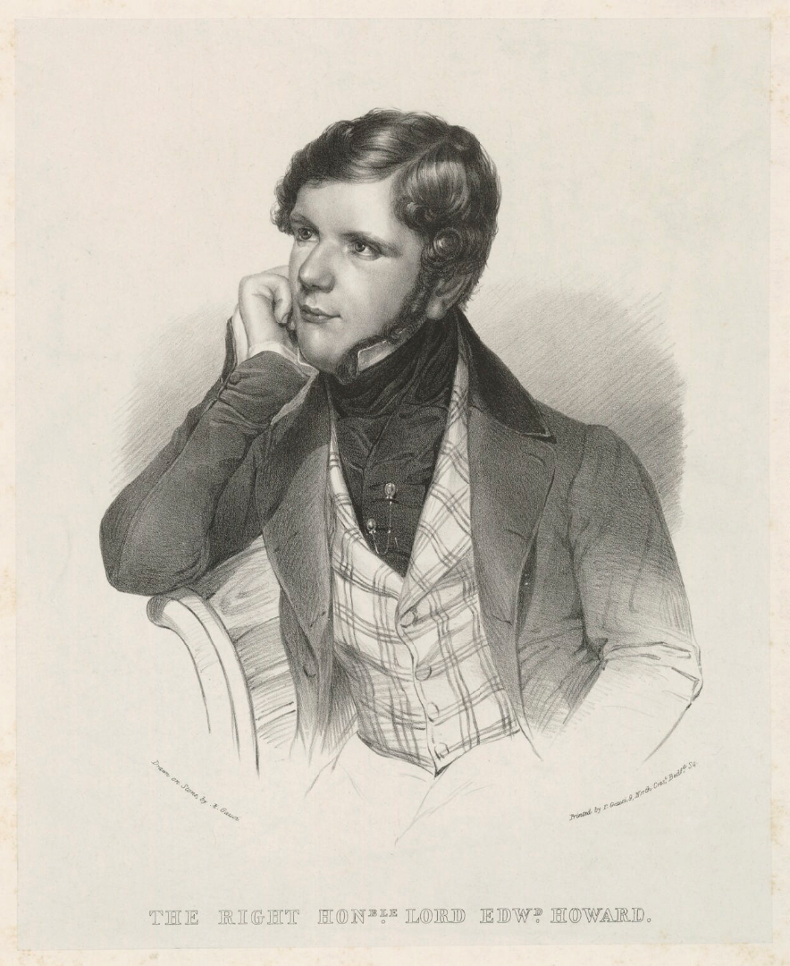 Lord Edward Fitzalan-Howard, later Baron Howard of Glossop